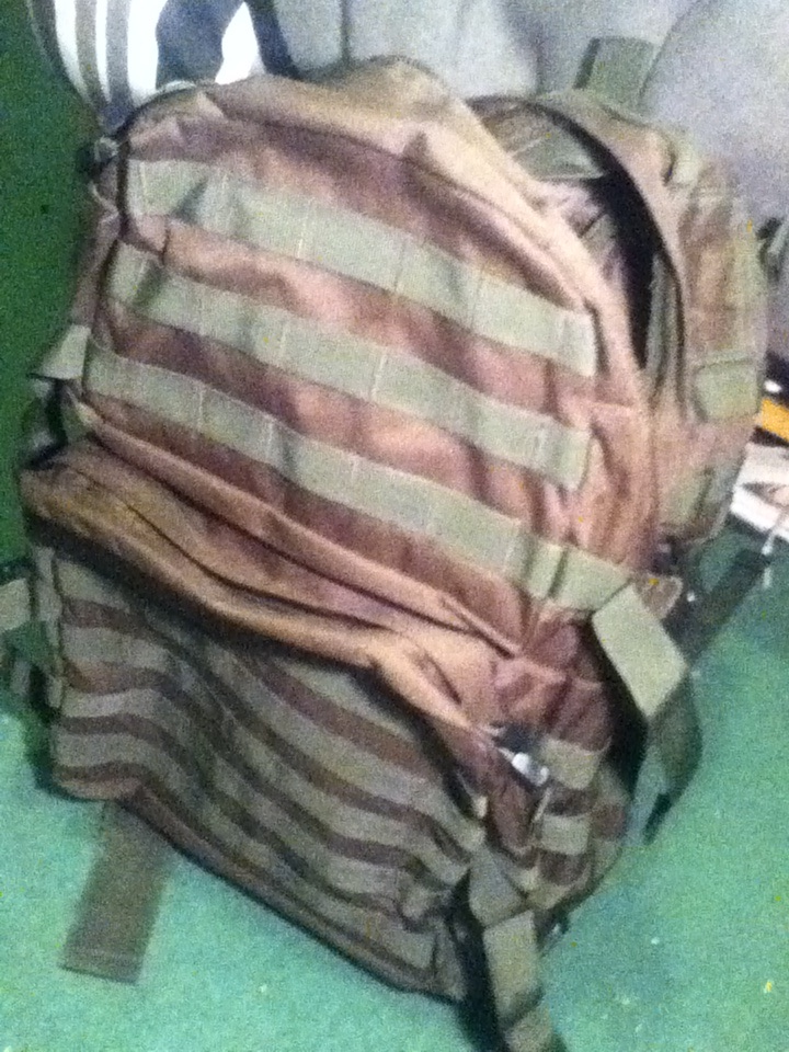 MOLLE system 40l patrol pack